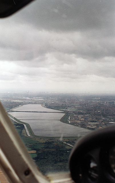 An aerial picture of the Chingford Reservoirs